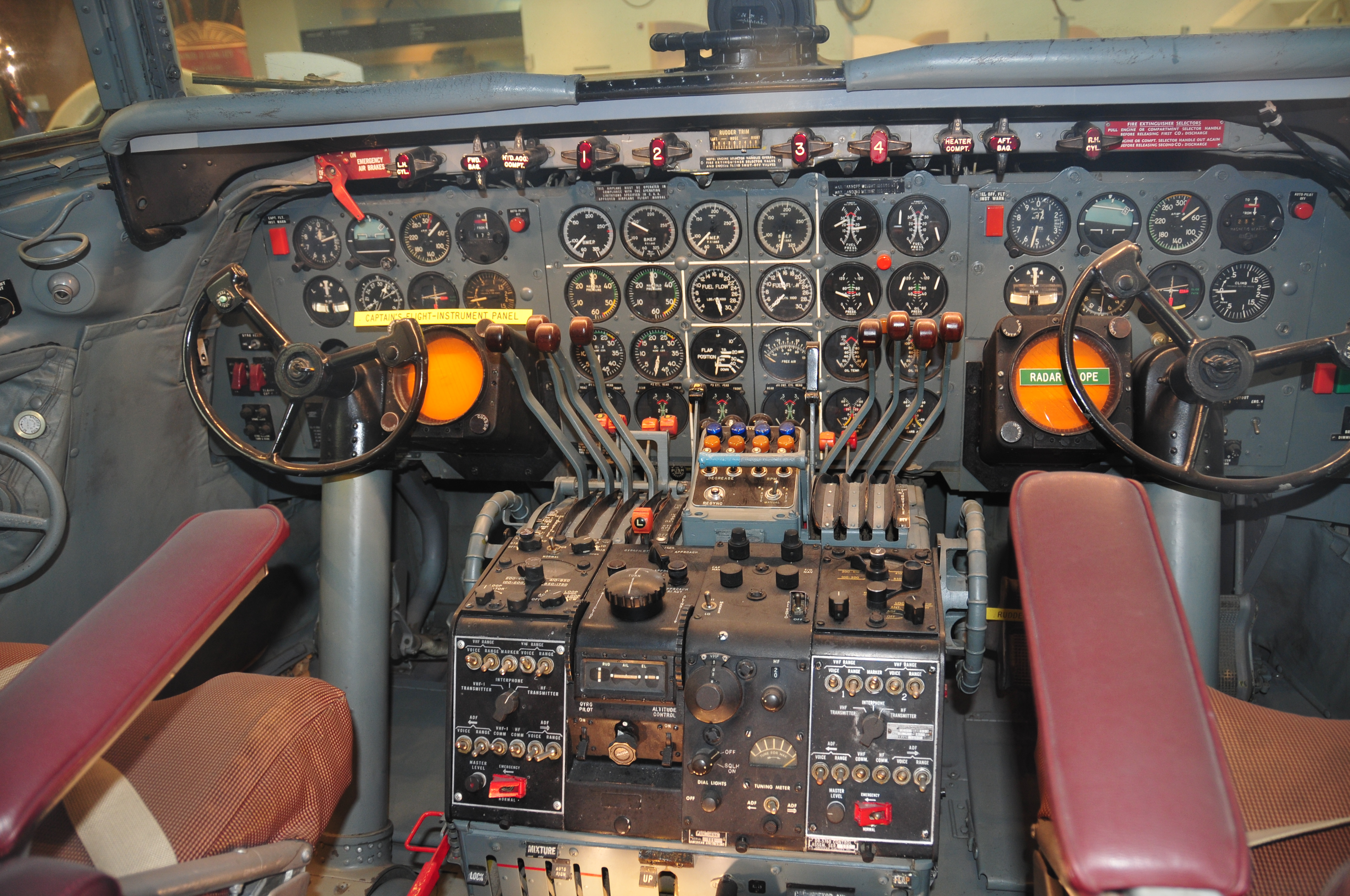 Cockpit of a DC-7 Aircraft - From the display at Smithsonian Aerospace Museum, Washington DC, United States.